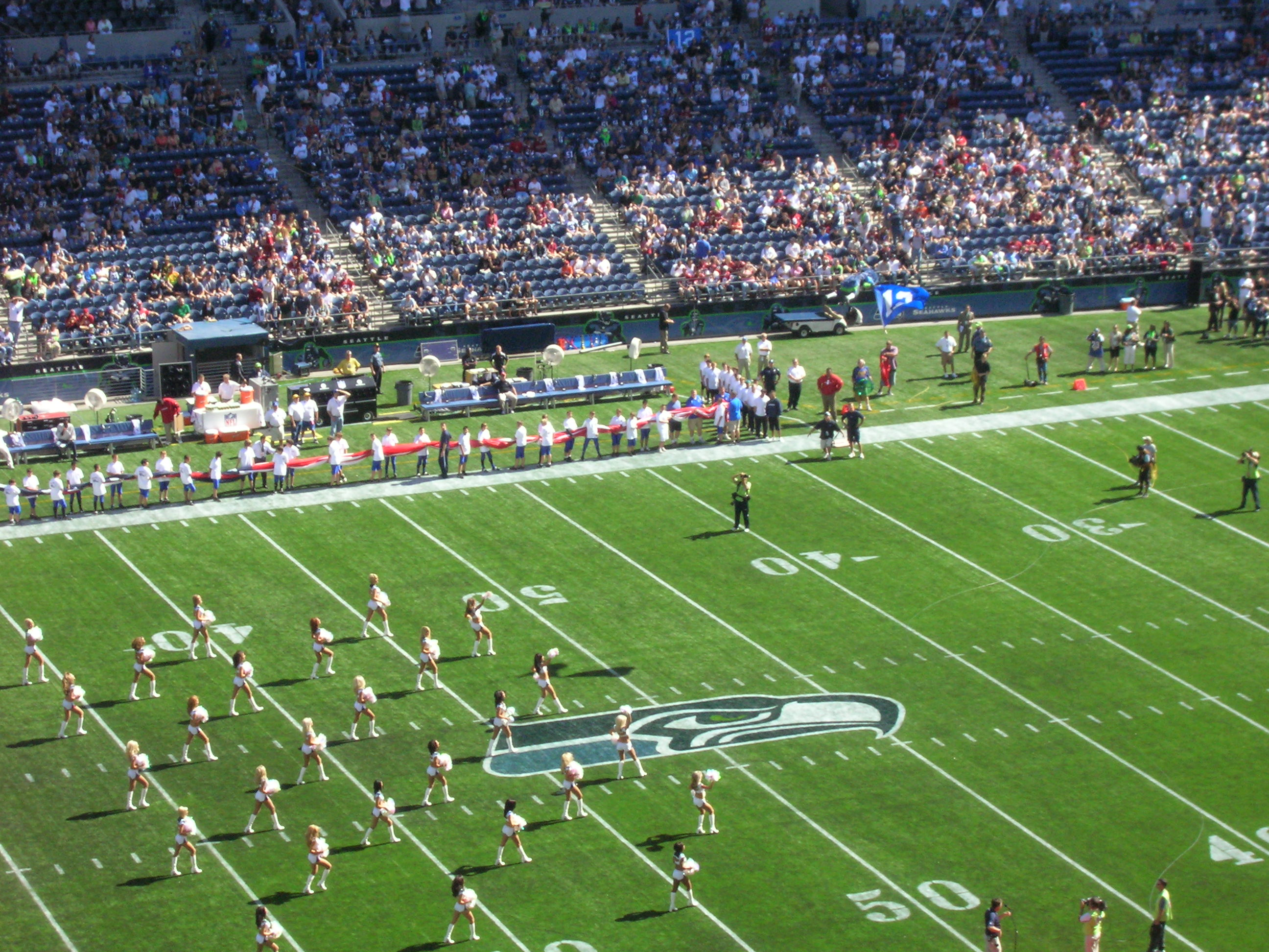 Seattle Seahawks Seagals dance during an apparent technical malfuction involving Seattle Seahawks mascot Blitz prior to the singing of The National Anthem.